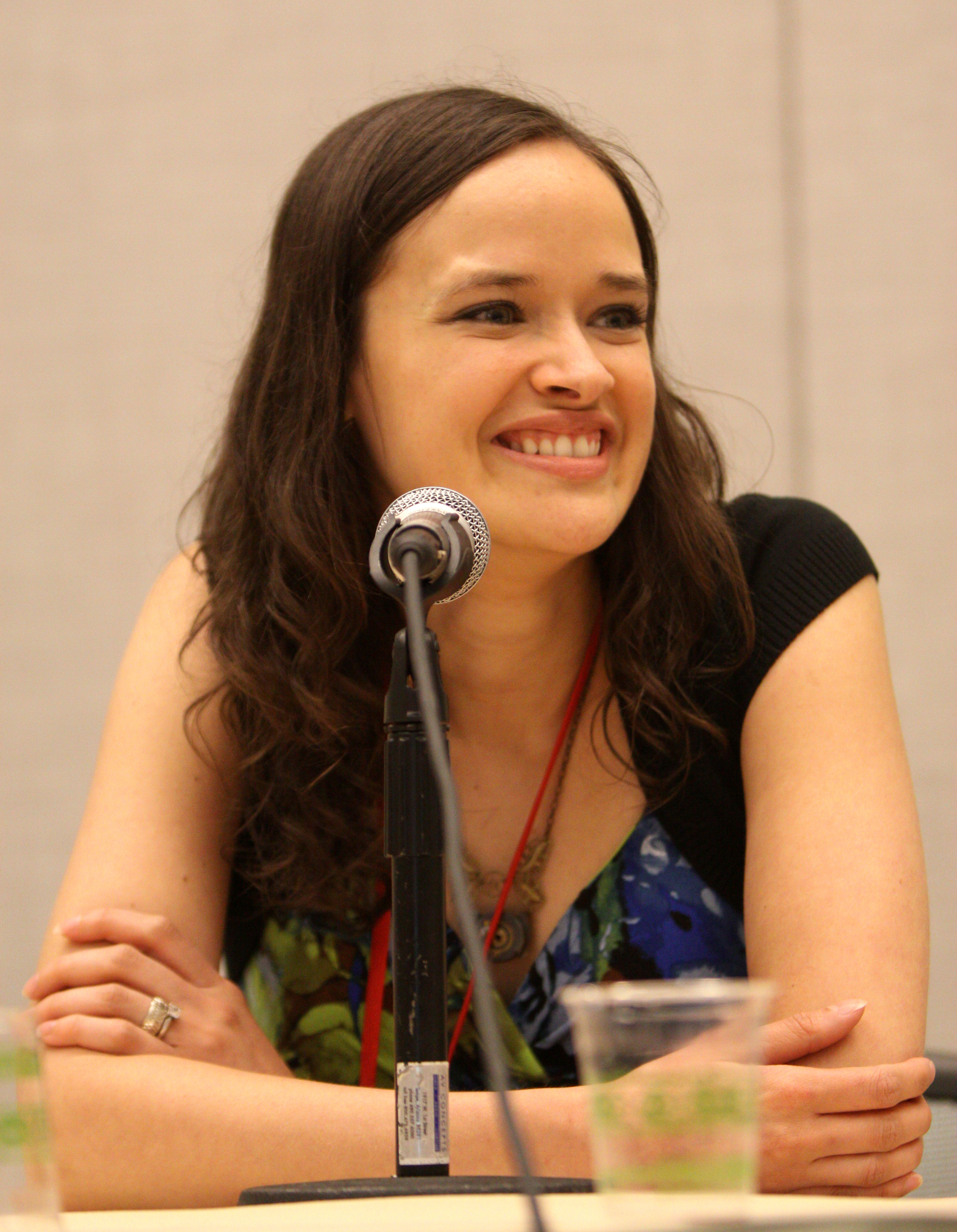 Brina Palencia at the 2011 Phoenix Comicon in Phoenix, Arizona.